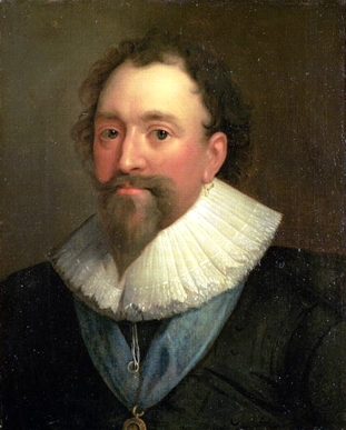 Oil portrait of William Herbert by Daniel Mythens.